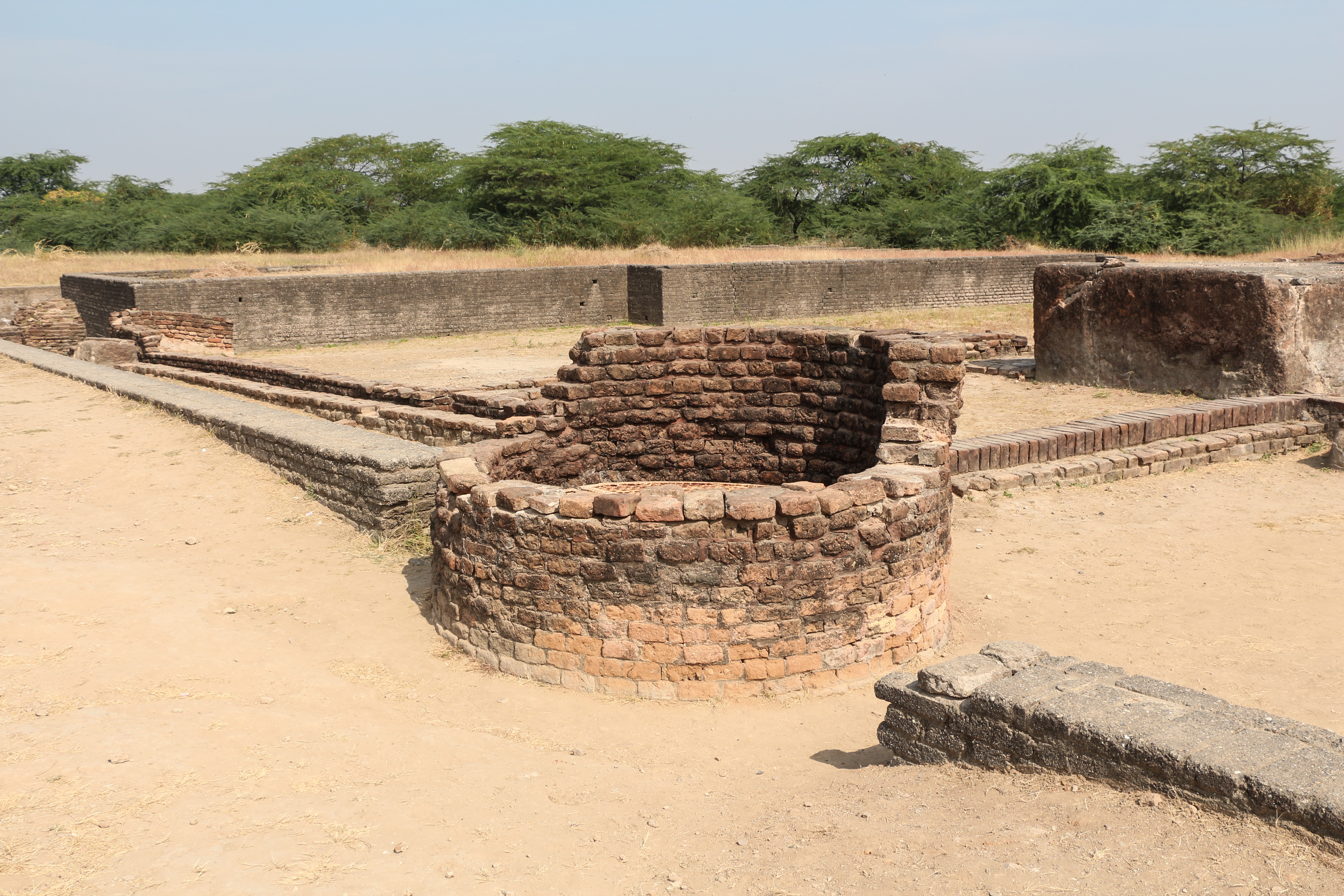 An ancient well, and the city drainage canals, in the upper town of the site of Lothal, India.